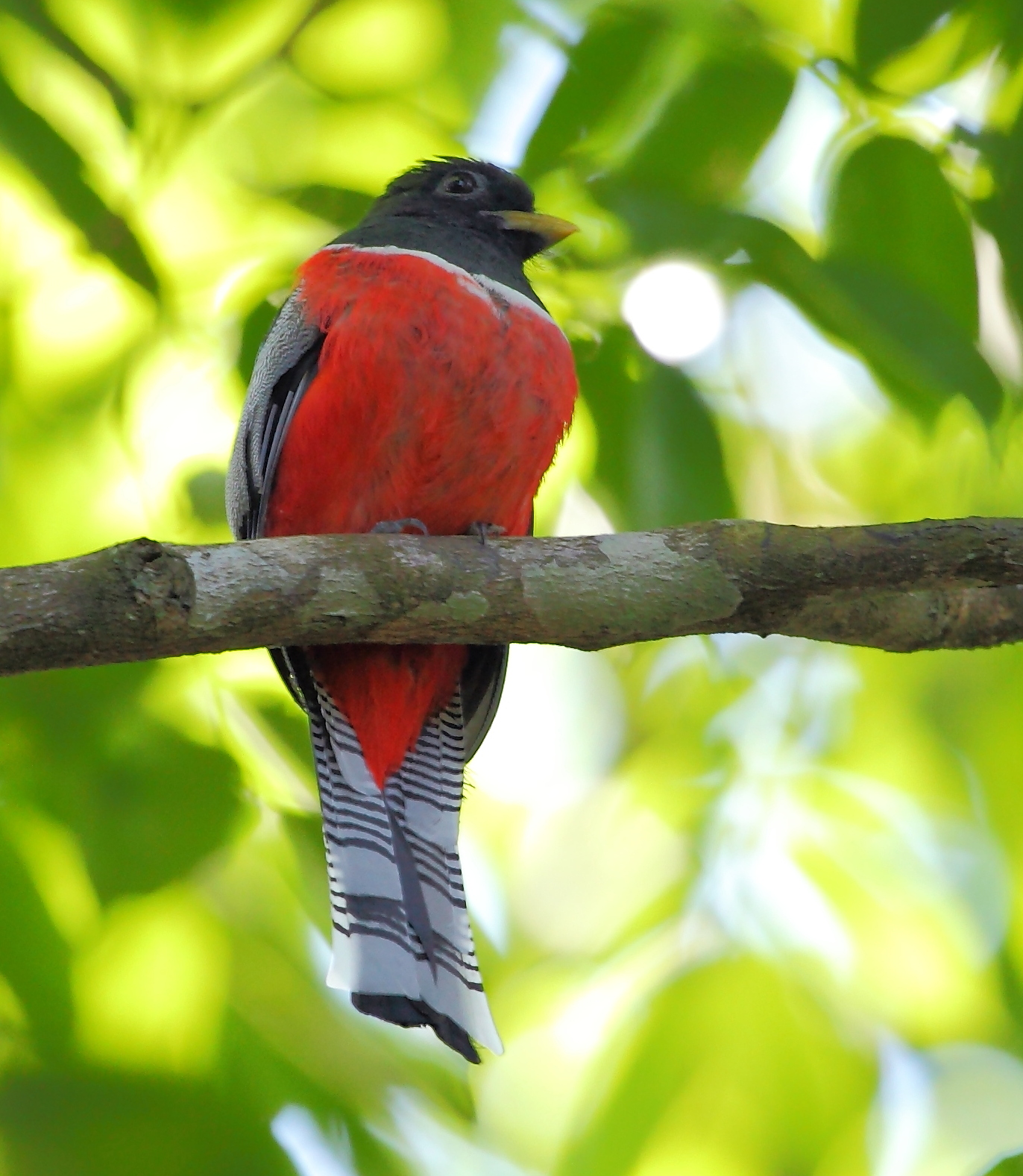 Collared Trogon (male) at Iranduba - AM - Brazil